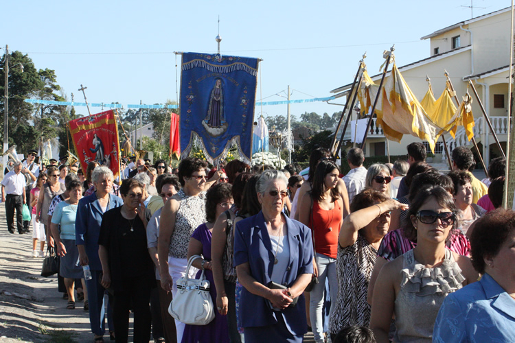 Festas em Honra da Nossa Senhora da saúde